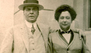 Morris Schinasi (1855-1927) and his wife Laurette. (Courtesy of Naim Güleryüz)